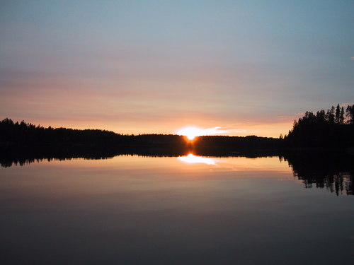 Sunset at Hanhijärvi (Enonkoski, Finland)